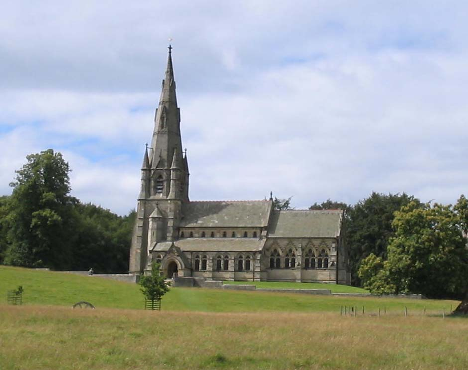 St Mary's parish church, Studley Royal, North Yorkshire